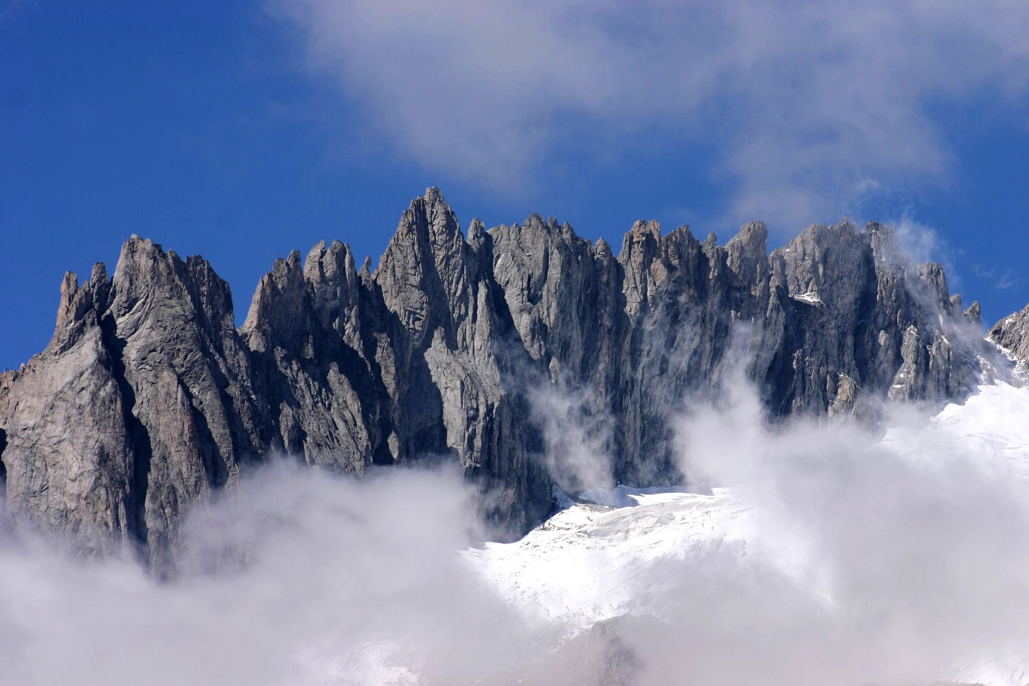 Fusshörner, Berner Alpen